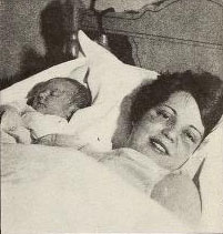 Actress Sue Carol with her new baby, 1932 Other information for an explanation of the copyright for information regarding public domain